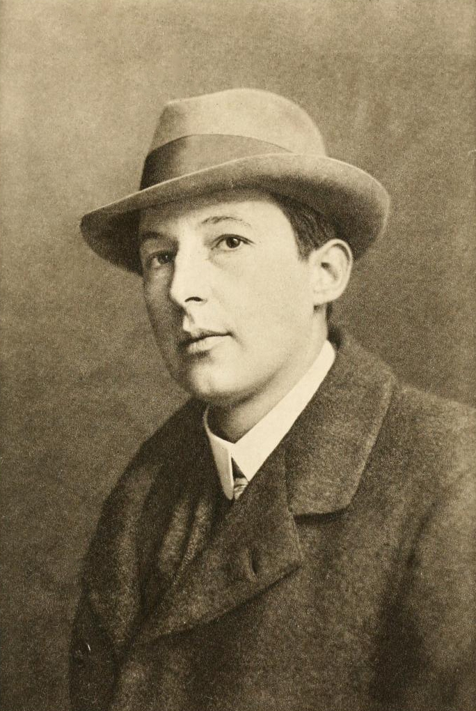 Image of Robert Ernest Vernède (facing page 288) from For remembrance: soldier poets who have fallen in the war